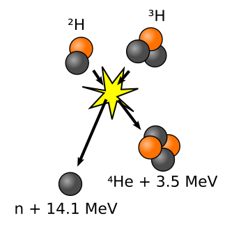 Deuterium-Tritium fusion diagram.